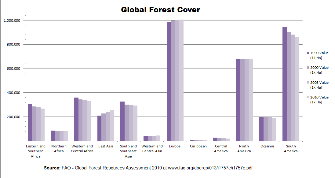 This graph shows values of total forest cover for various regions and sub-regions of the world. The data is from the FAO's "Global Forest Resources Assessment 2010" report, which is available here. A graph with additional information from said report is here